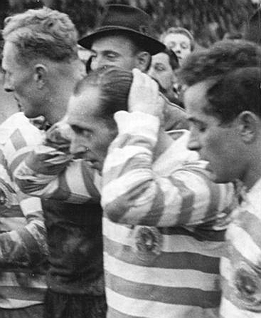 Title: Wismut Karl-Marx-Stadt - Lok Leipzig 1:0 Factual corrections and alternative descriptions are encouraged separately from the original description. Additionally errors can be reported at this page to inform the Bundesarchiv. Original historic description: ... Karl Wolf ...